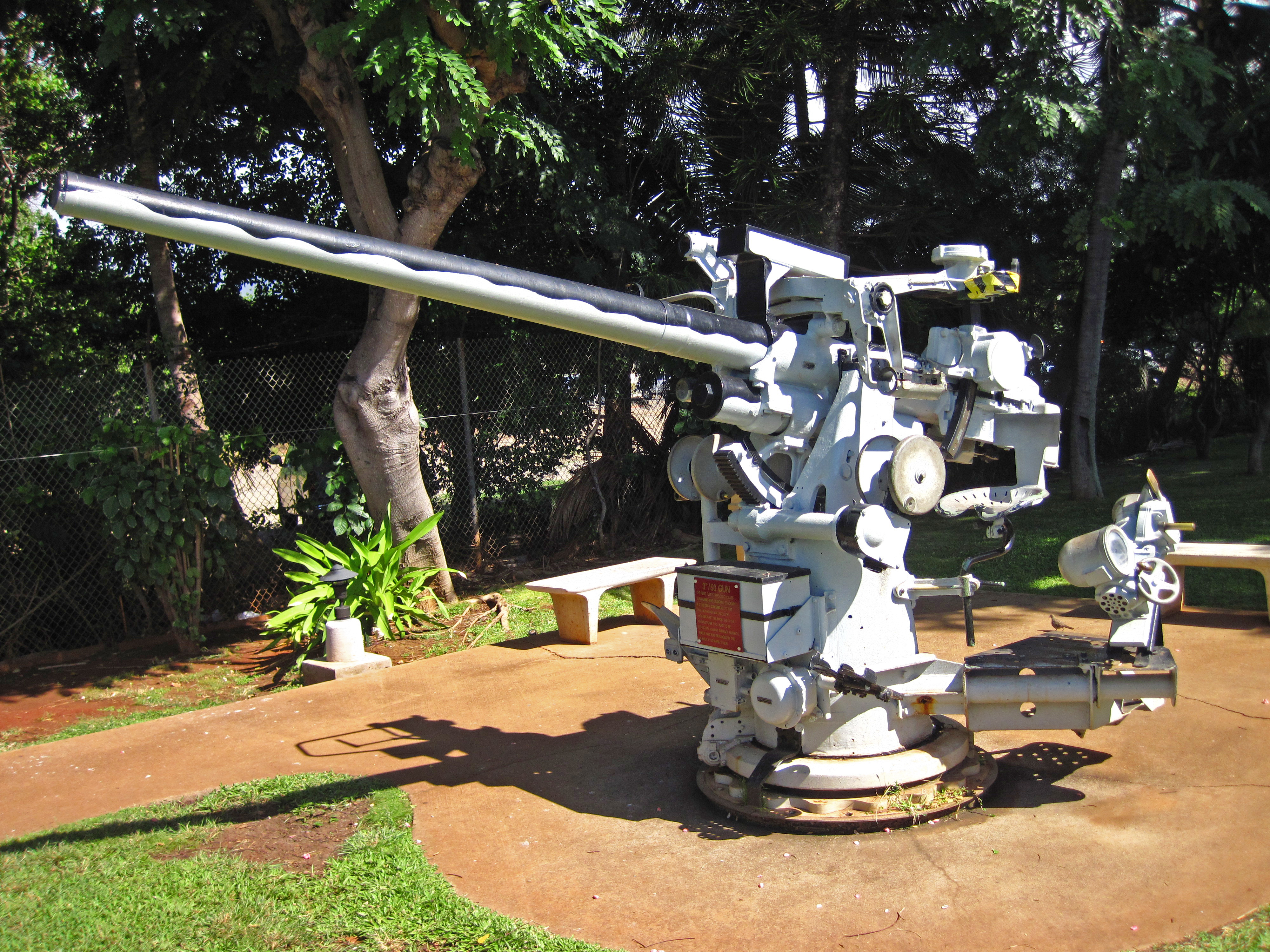 The first fleet-type gato-class submarine was designed to carry a 3"/50 deck gun similar to this one. Although an excellent anti-aircraft gun, the 3"/50 proved to be too light to be effective against surface targets and in 1942 was replaced by the heavier 4"/50 Mark 12 gun.